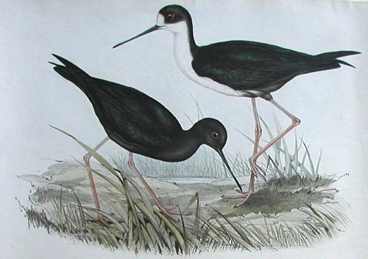 New Zealand Stilts. Left, the Kākī or Black Stilt, Himantopus novaezelandiae; on the right the Poaka or Pied Stilt Himantopus leucocephalus.